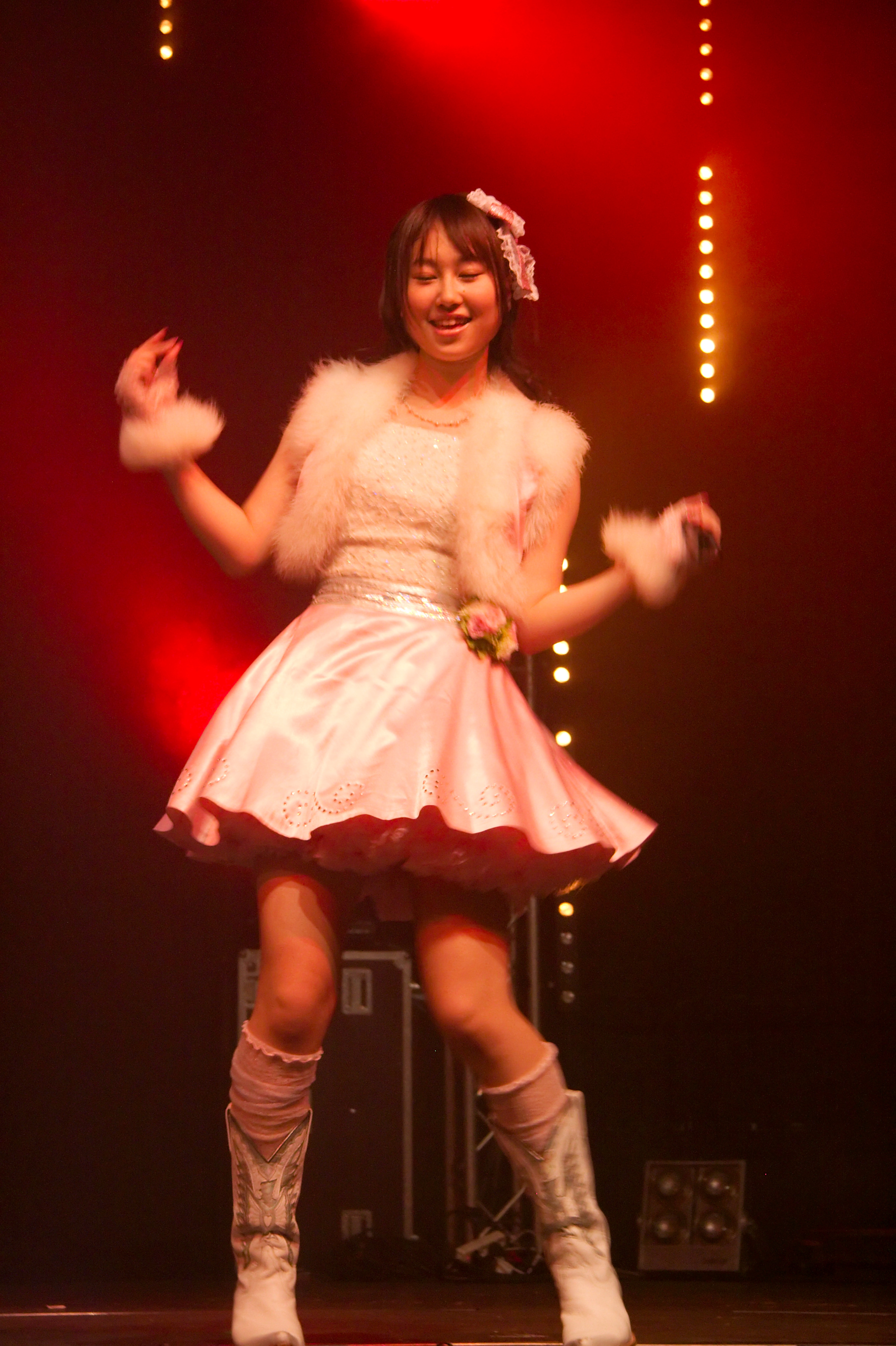 AKB48 live at Japan Expo 2009 (Paris, France).